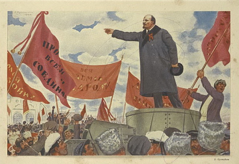 The eve of October (speech VI Lenin at the Finland station)